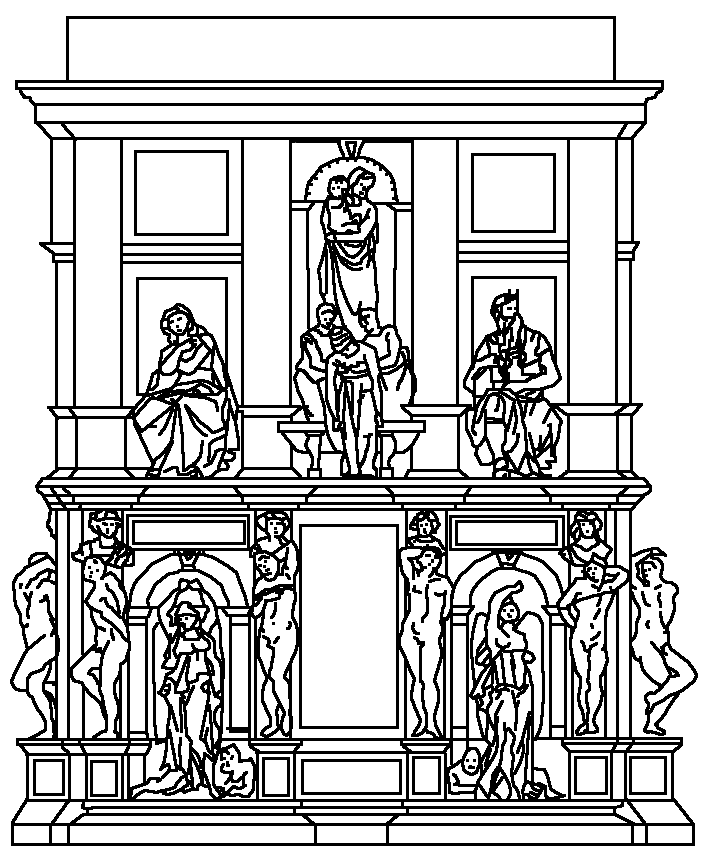 Reconstruction of the project of Michelangelo for the Julius II Tomb dated 1516 (2nd project). Inspired to reconstruction of F. Russoli, 1952